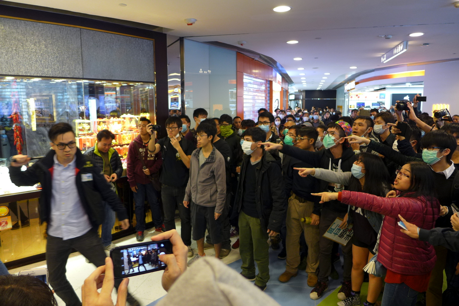 Police force in Trend Plaza